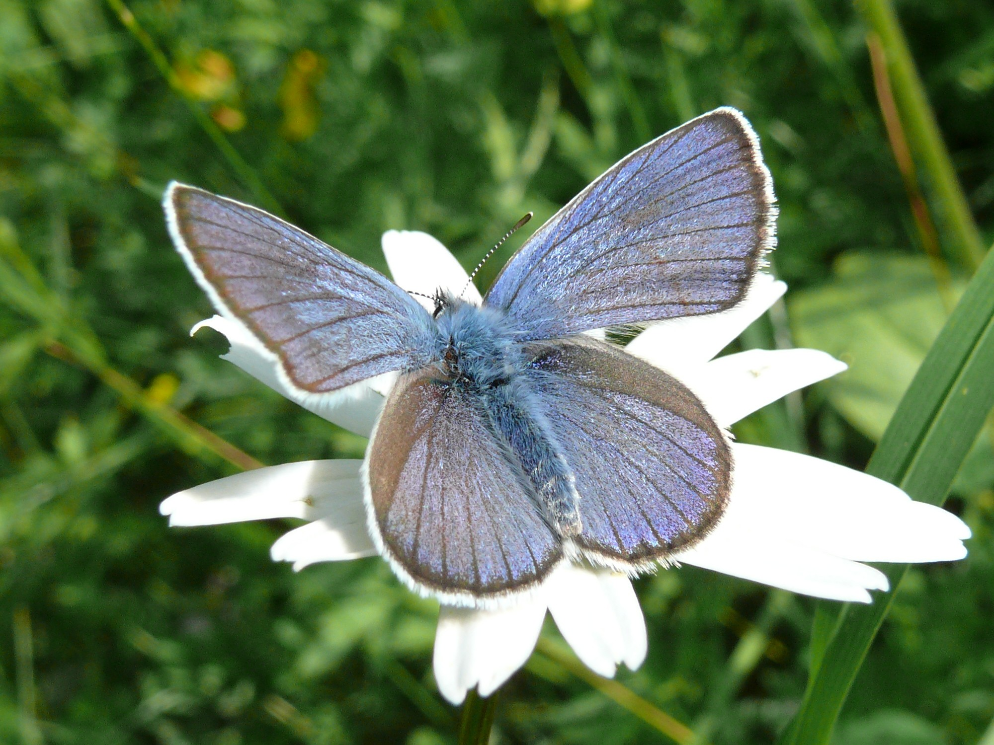 male Mazarine Blue, South Tyrol